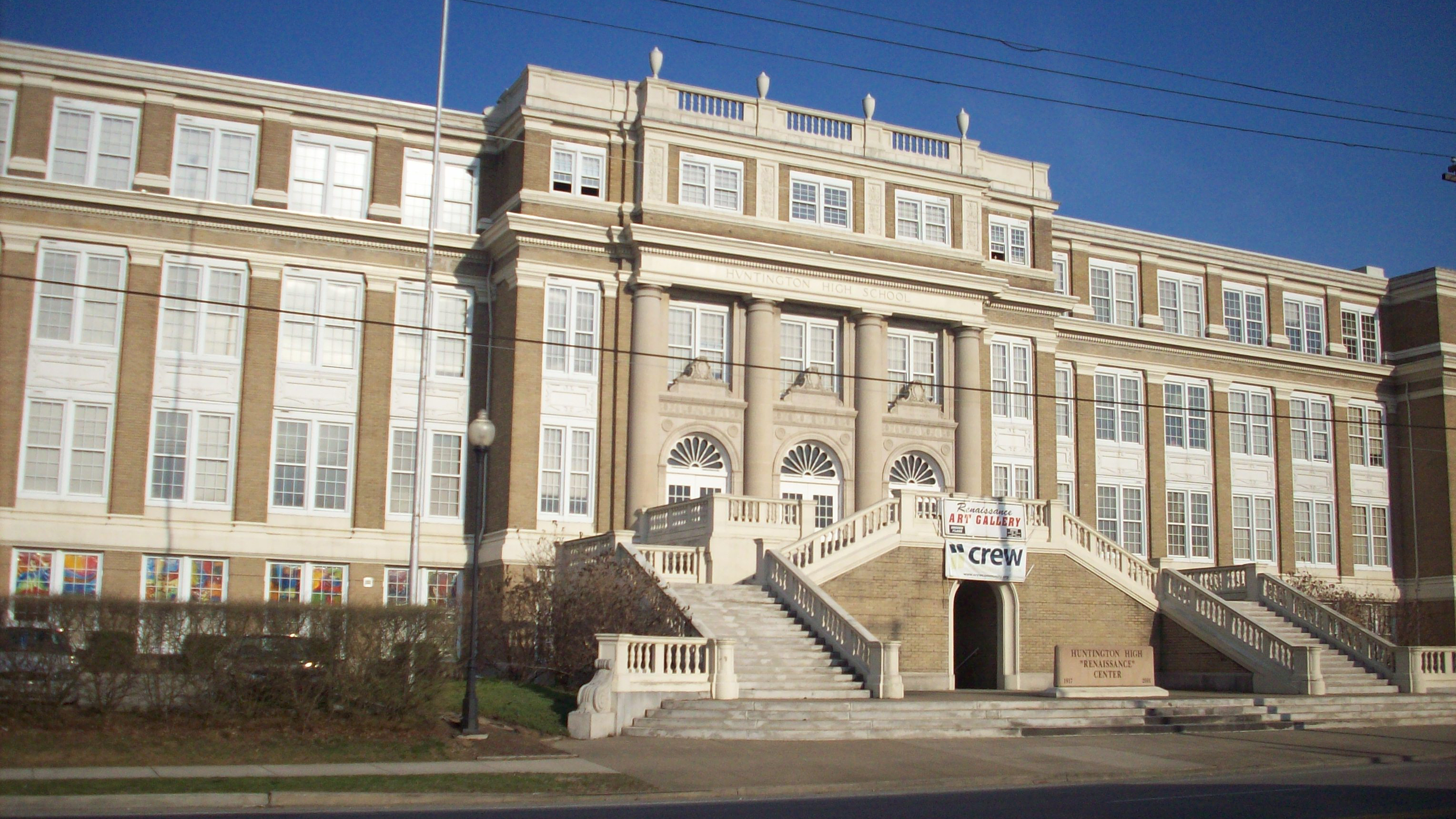 Photo of the old Huntington High School building located in the South Side neighborhood of Huntington, West Virginia. The photo was taken from across 8th St. near the TCBY.